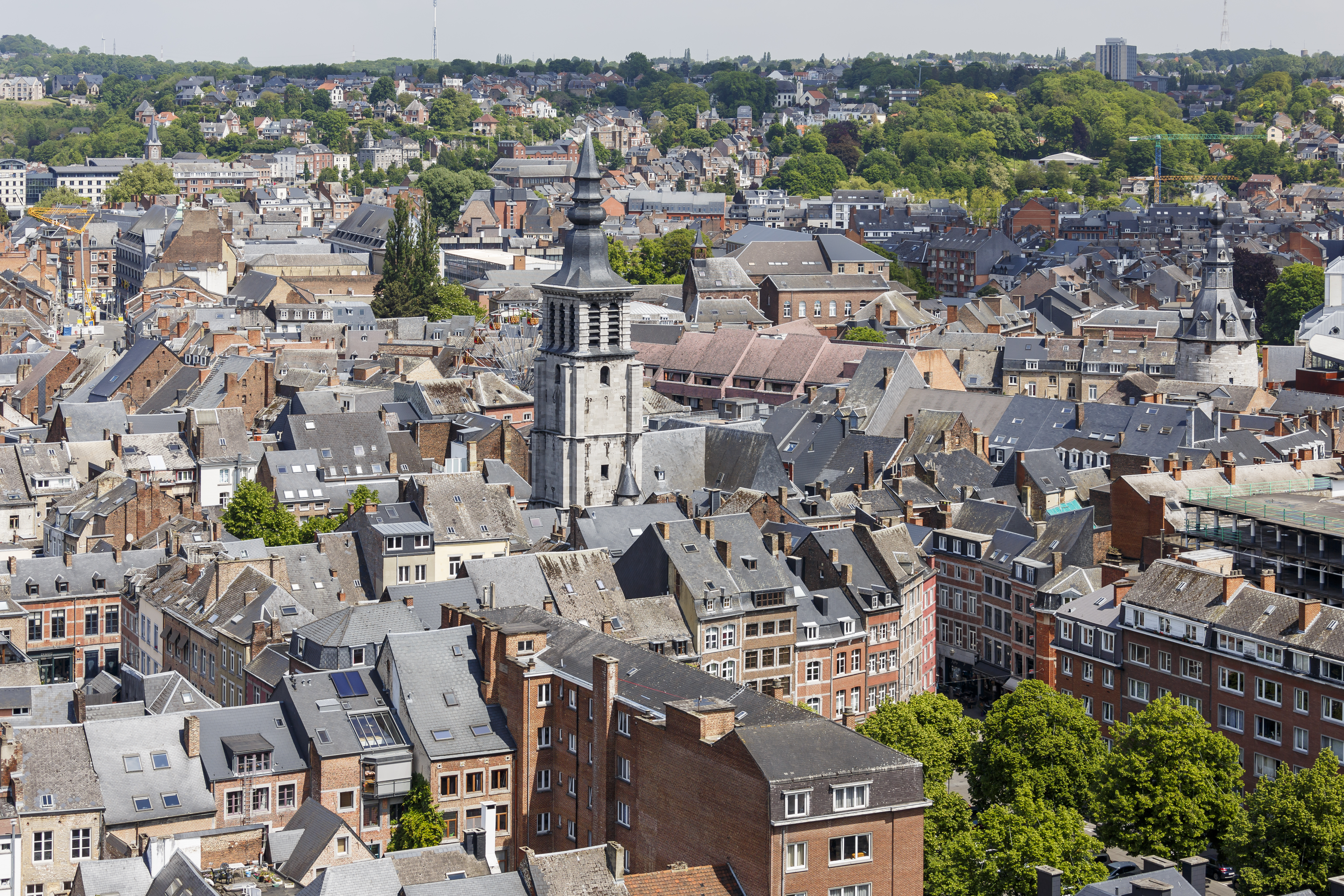 Namur, Belgium: View of the historic center of Namur from citadelle.